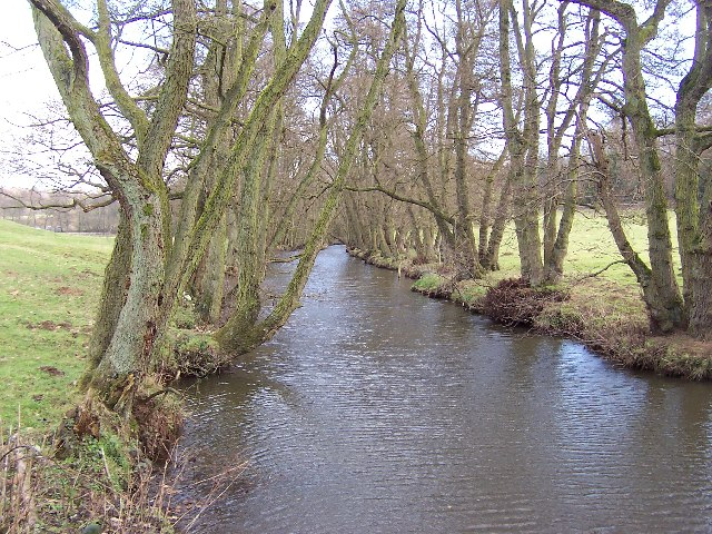 River Skell. The river between Spa Gill Woods and Fountains Abbey